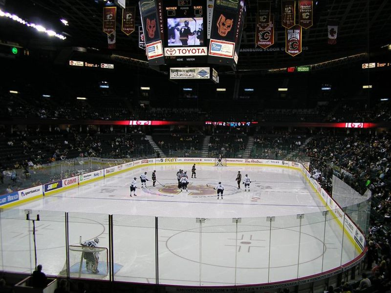 Photo I took at the Calgary Hitmen game on December 3, en:2006.